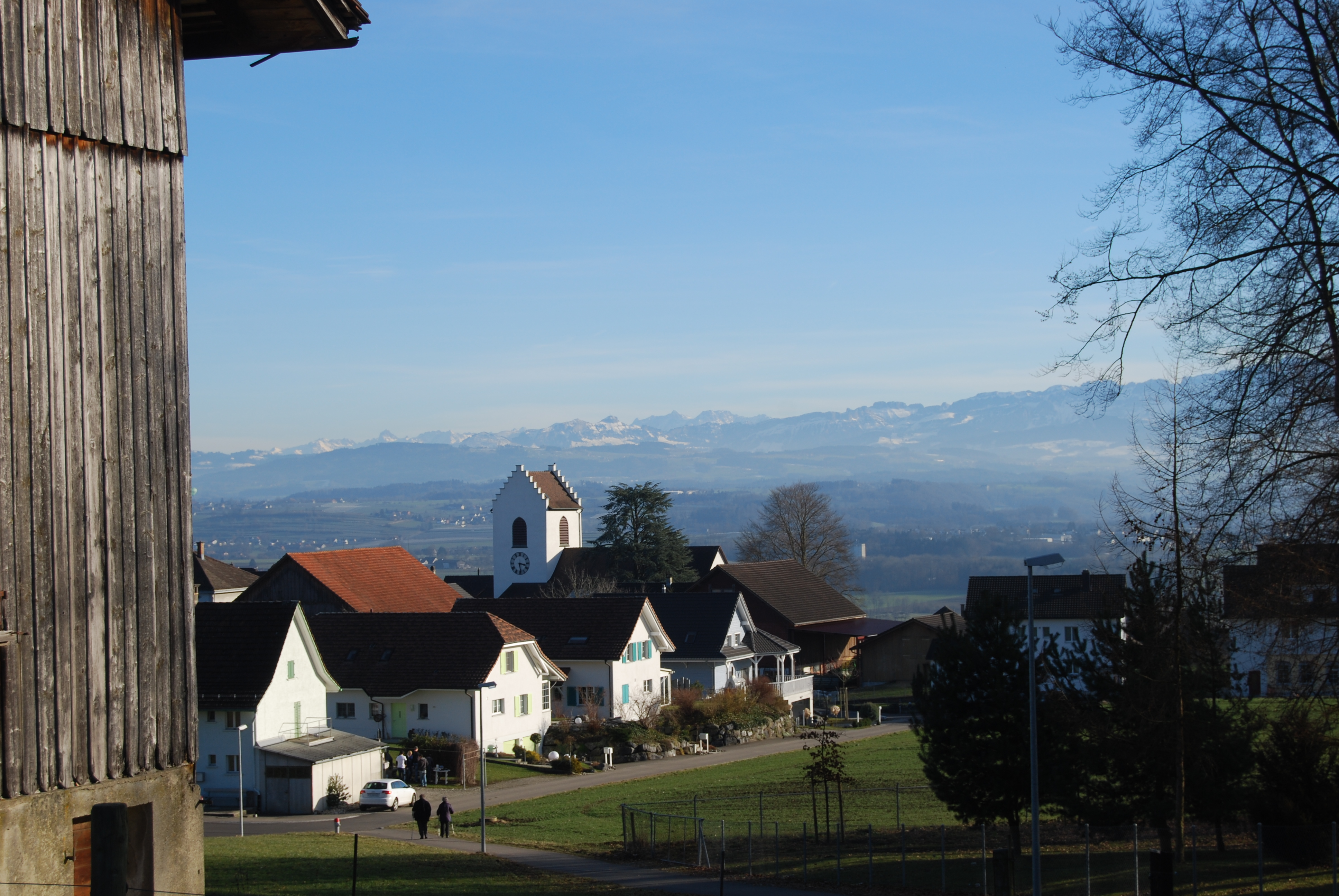 Berg, canton of Thurgovia, SwitzerlandEsperanto: Berg, Kantono Turgovio, Svislando